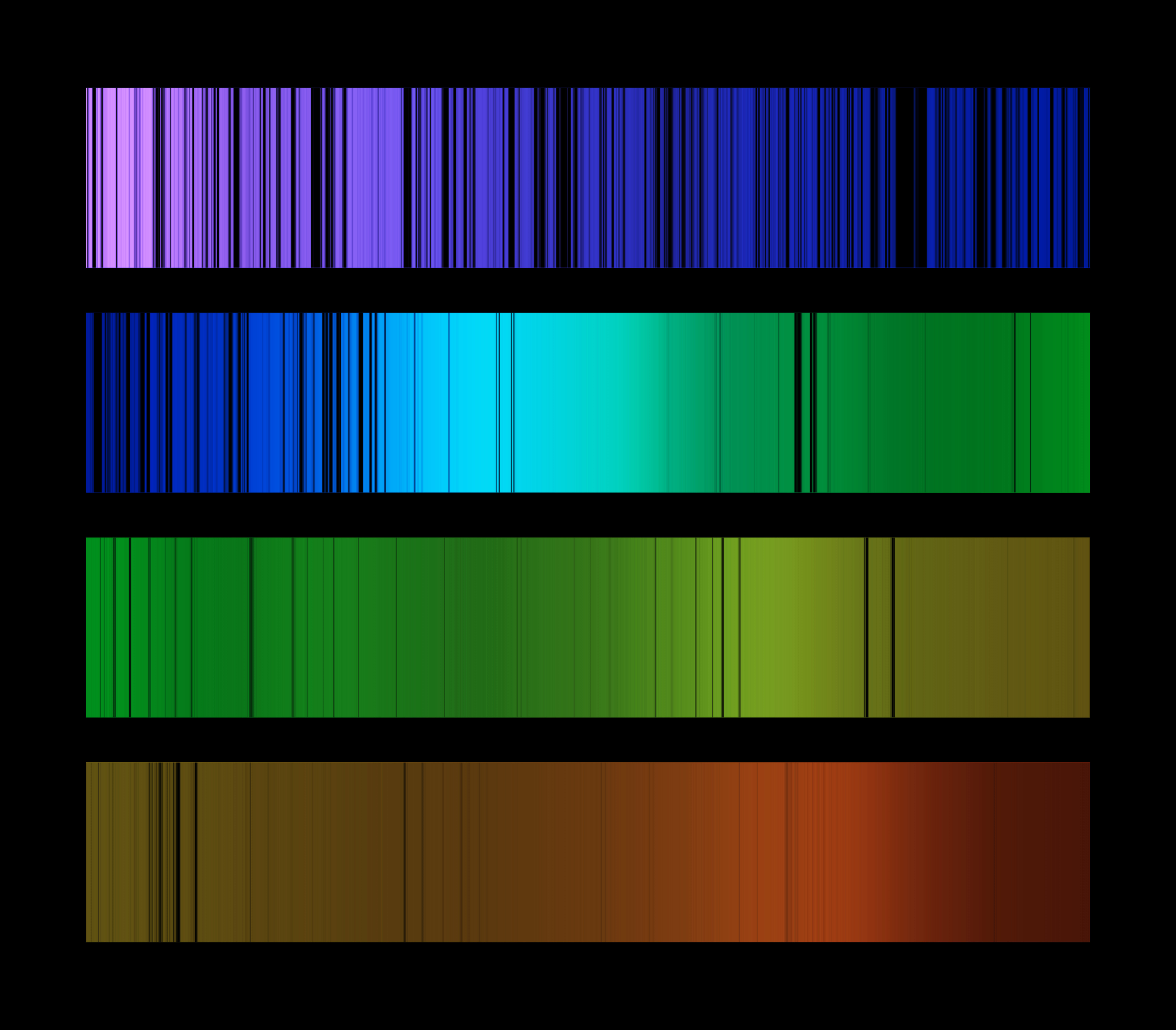 The most massive galaxies in the Universe host supermassive black holes at their centres. These truly colossal black holes chew up surrounding material at astonishing rates, expelling huge amounts of radiation as they do so and glowing as some of the brightest objects in the known Universe! Despite their incredible distances from Earth, the regions surrounding these black holes shine so brightly that their appearance is similar to that of stars in our own galaxy, the Milky Way. Some of these objects, known as quasi-stellar-objects or quasars for short, are useful tools to help us better understand the cosmos. Because they lie so far away, there is plenty of intervening space between our telescopes and a target quasar. This space is not empty; it is filled with intergalactic medium, which mostly comprises clouds of gas — mainly hydrogen and helium, but also with hints of other elements — that absorb light from more distant sources and prevent it from reaching us. The light emitted from bright quasars has to travel through these clouds on its journey to us, and so is partly absorbed. This spectrum, taken by the UVES instrument mounted on ESO’s Very Large Telescope in Chile, shows the light from a quasar, catchily named HE0940-1050, after it has travelled through such clouds. The vertical lines are tell-tale signs of absorption — they show where light has been absorbed by the gas in the intergalactic medium and thus removed from the original quasar spectrum. The intensity of the lines is linked to the amount of material which is crossed by the light. By analysing these lines, astronomers can infer all sorts of information about the material from which the clouds are made. The exceptional value of this particular spectrum is in the very faint lines which are the faintest ever observed in a quasar spectrum.